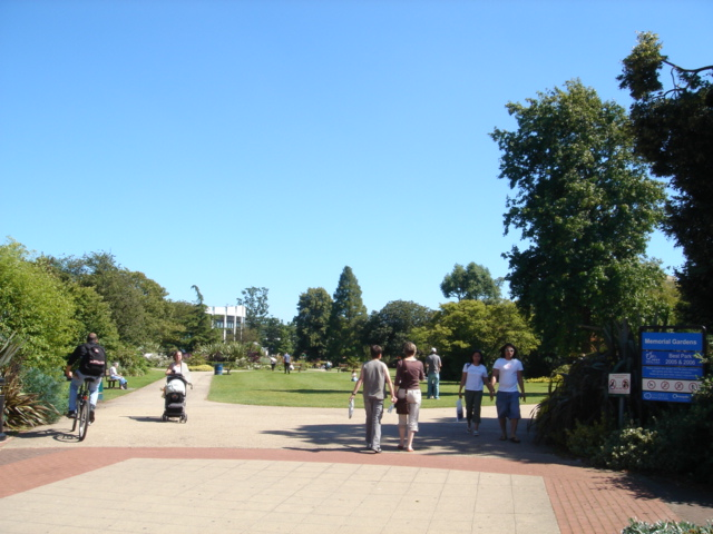 Northwestern entrance to the Memorial Park in Crawley. Photographed on 4th August 2007.